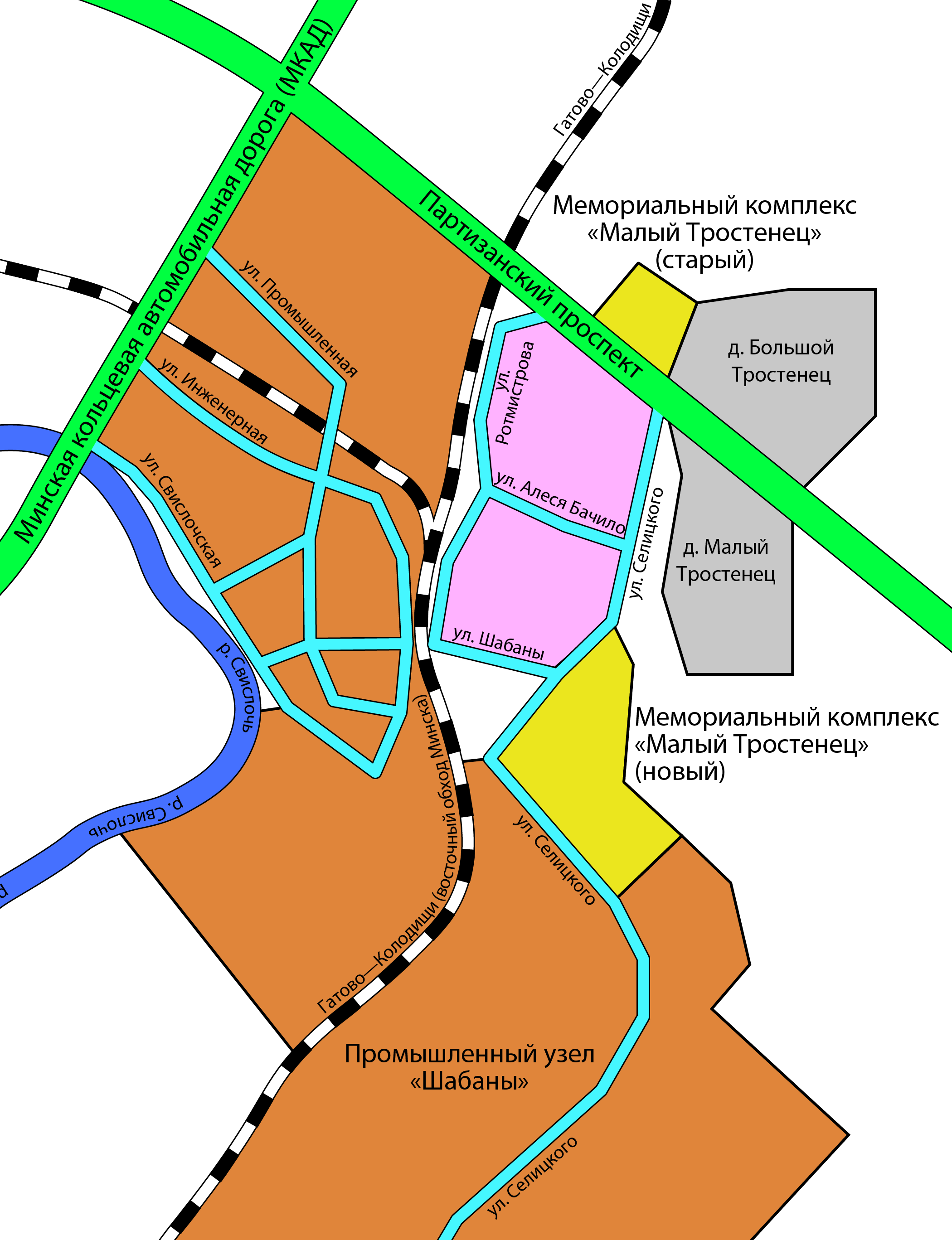 Map of Šabany microdistrict in Minsk, Belarus